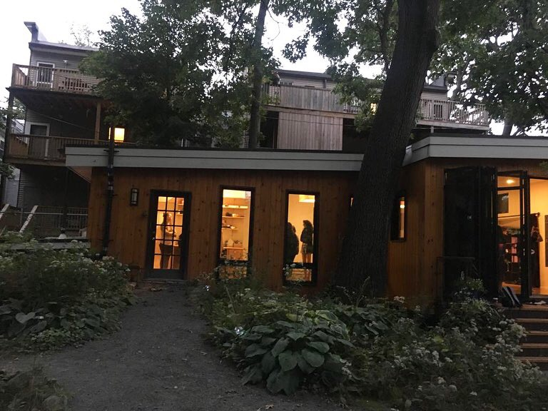 Photo taken in September, 2018 of the exterior of the dojo located at the Old Oak Dojo in Jamaica Plain, Boston, MA, USA.